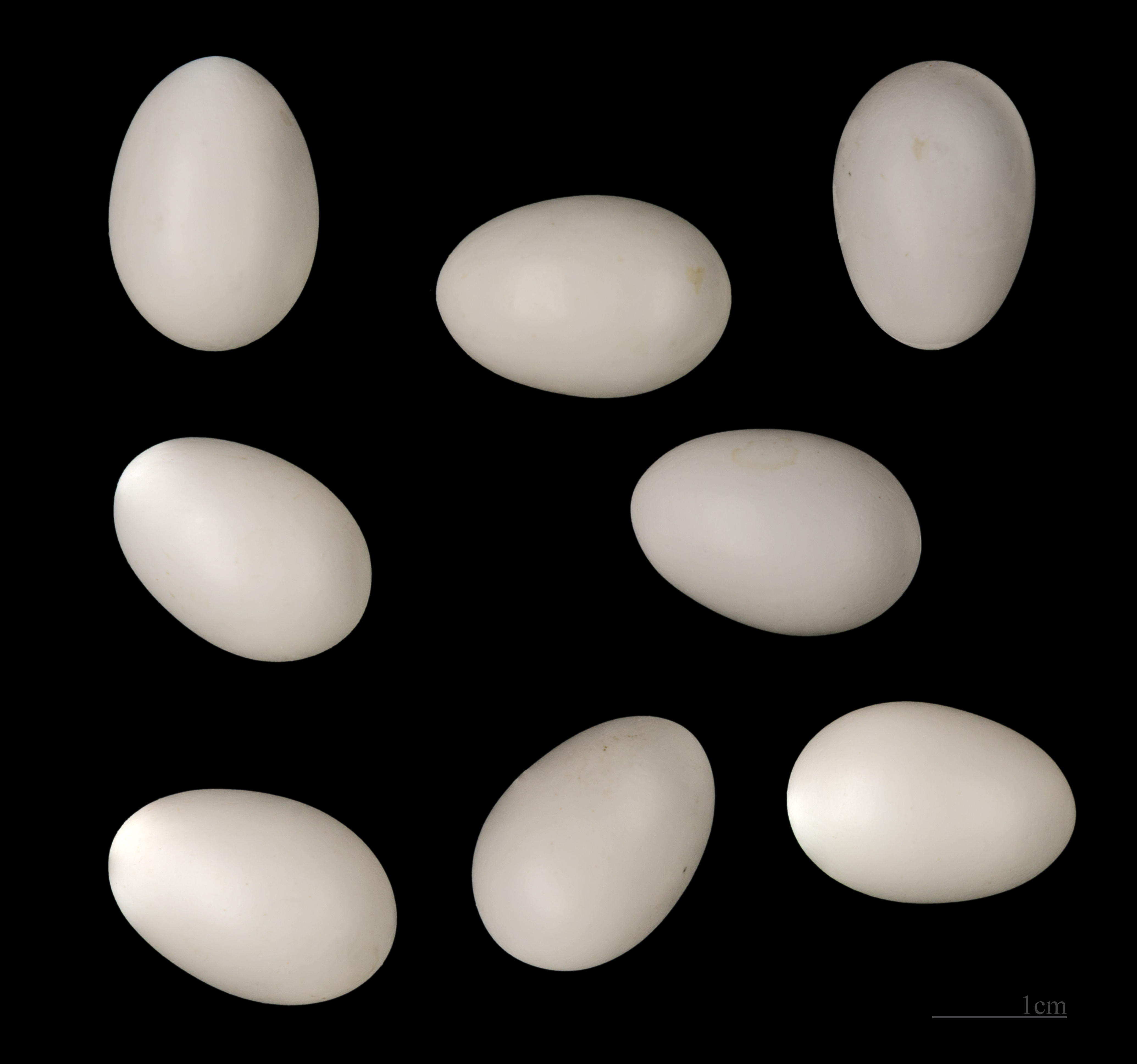 Egg of Eurasian wryneck . Collection of Jacques Perrin de Brichambaut.